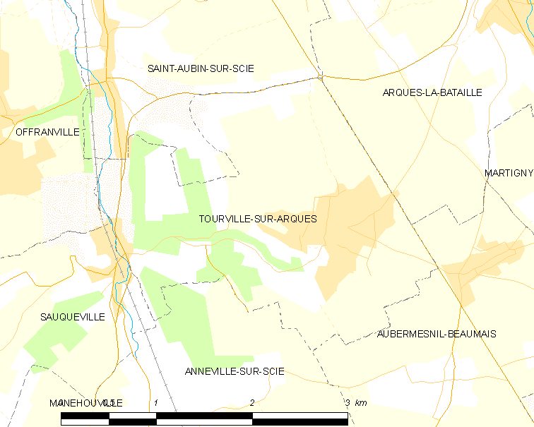 Map of French municipality Tourville-sur-Arques